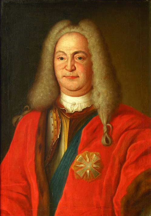 Jan Michał Sołłohub